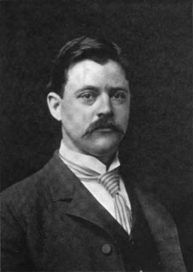 Photo portrait of Wilfred E. Griggs (1866-1918), a leading architect of Waterbury, Connecticut.